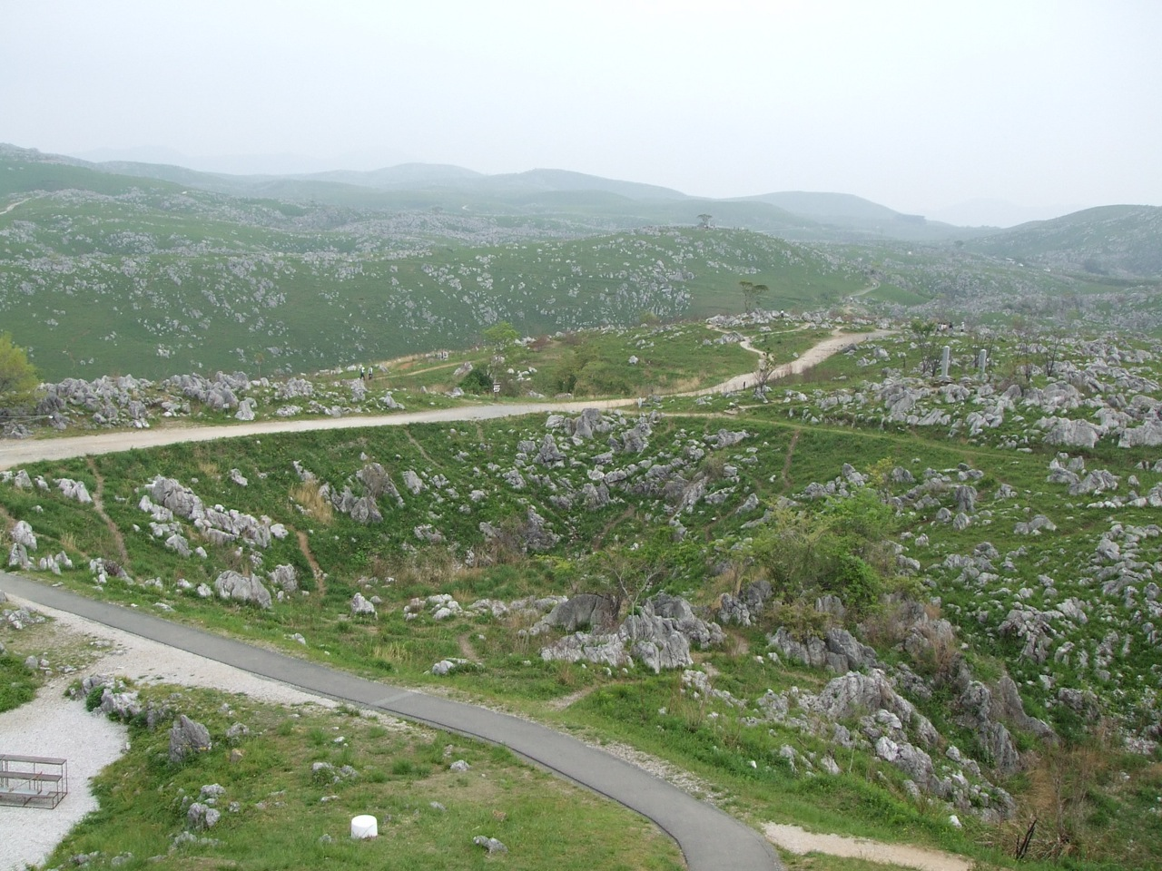 秋吉台, Akiyoshidai Quasi-National Park